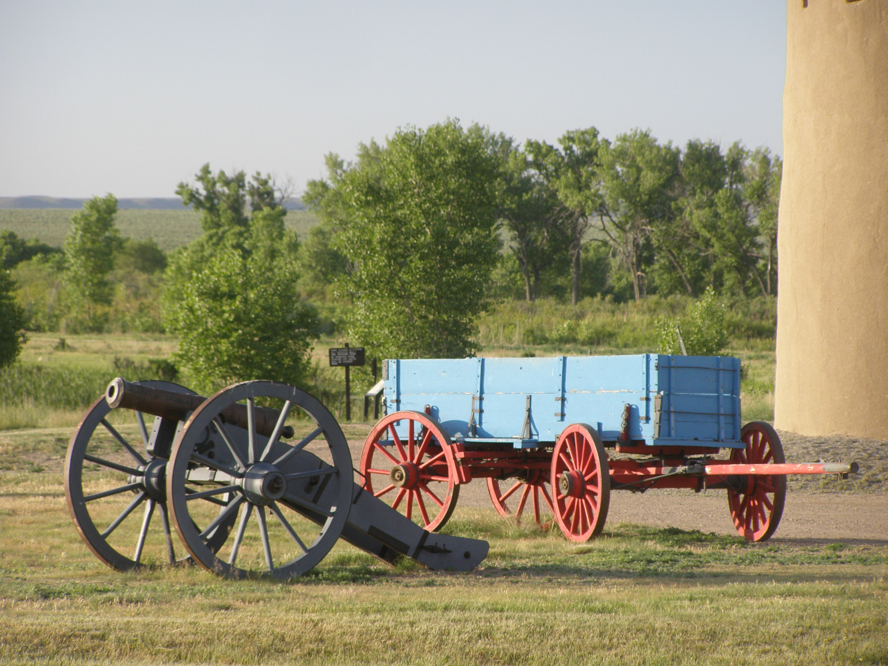 Mountain Howtizer and Supply Wagon, Bent's Old Fort, Colorado